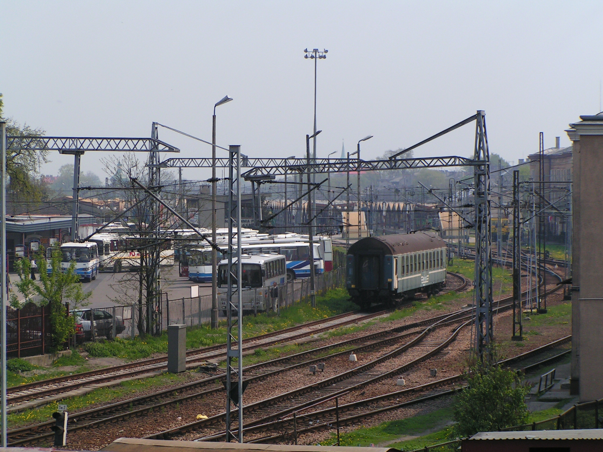 Railway station Przemyśl Gł. - Ukrainian wagon on a wide (1520 mm) track